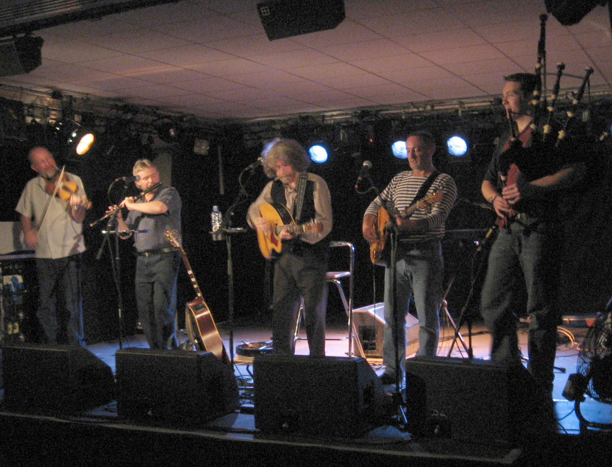 Tannahill Weavers Aberdeen 2007